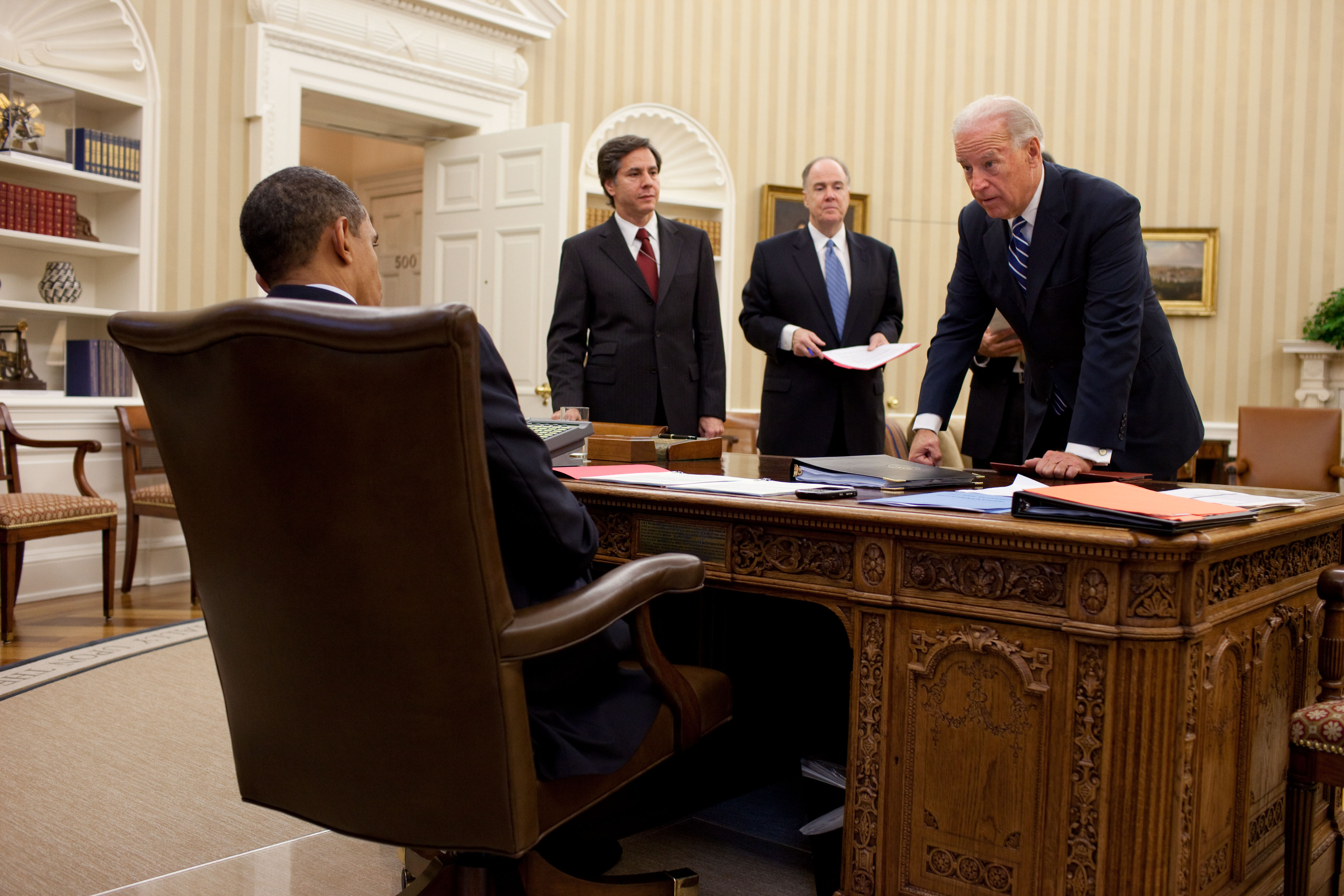 President Barack Obama talks with Vice President Joe Biden, National Security Advisor Tom Donilon, center, and the Vice President's National Security Advisor Tony Blinken, prior to a phone call to Ambassador James Jeffrey, United States Ambassador to Iraq, in the Oval Office, Nov. 4, 2010. (Official White House Photo by Pete Souza)